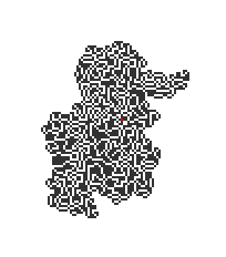 The turmite specified as {1, 2, 1}, {1, 8, 1 , 1, 2, 1}, {0, 2, 0 } shown at 65932 timesteps. This string is a curly-bracketed table of n_states rows and n_colors columns, where each entry is a triple of integers. The elements of each triple are: a) new color of the square, b) direction(s) for the turmite to turn: 1=noturn, 2=right, 4=u-turn, 8=left, c) new internal state of the turmite. For example, the triple {1,2,1} says: a) set the color of the square to 1, b) turn right (2), c) adopt state 1 and move forward one square.